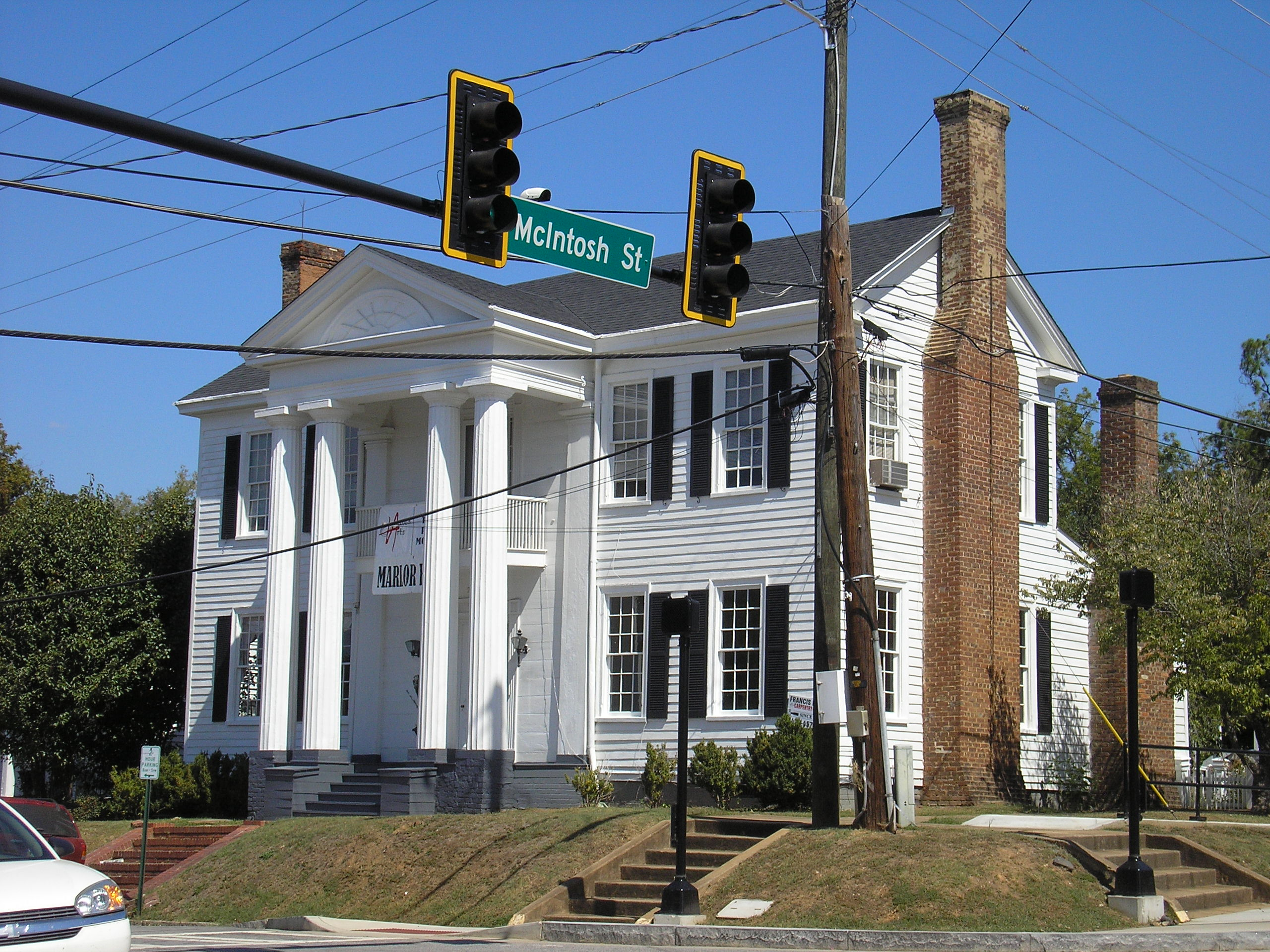 Milledgeville Historic District